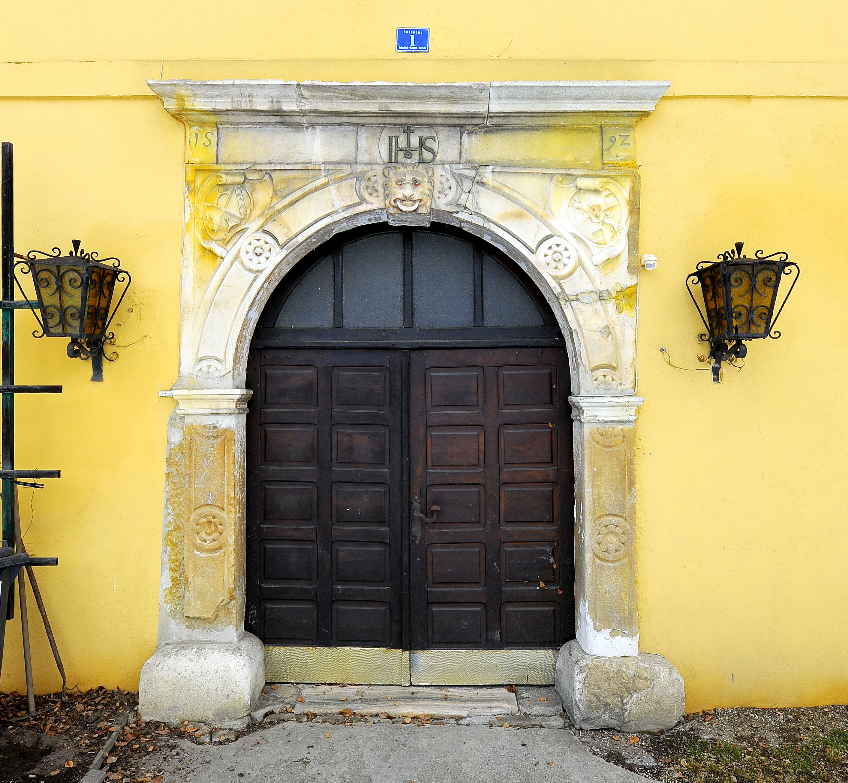 Renaissance portal of castle Rosenegg on the Friedrich-Gagern-Street #1, municipality Ebenthal, district Klagenfurt-Land, Carinthia, Austria